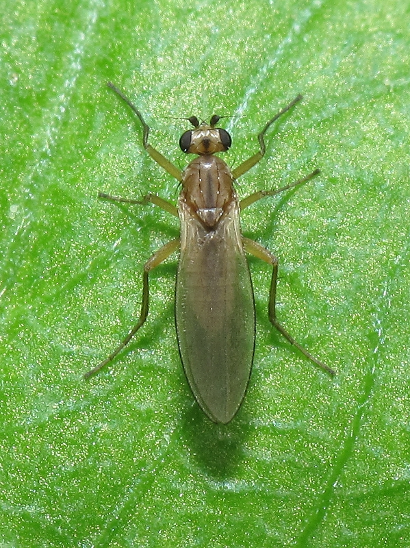 Lonchoptera sp., Oroso